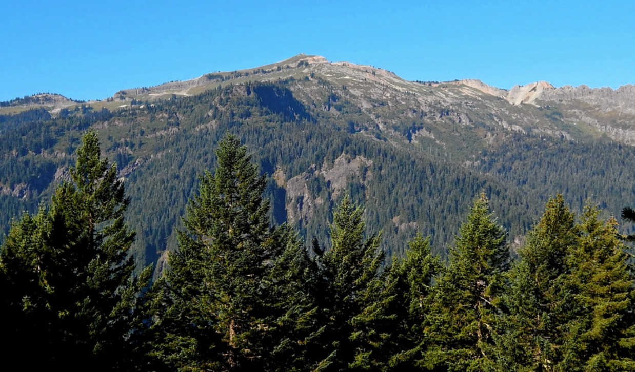 Tatoosh Peak seen from Stevens Canyon Road in Mount Rainier National Park